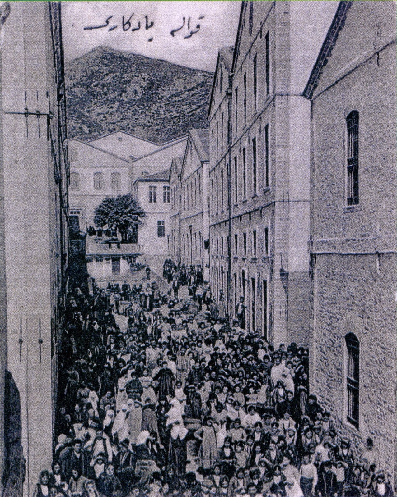 Workers of the Jewish Tobacco Factory in Kavala Herzog 1910